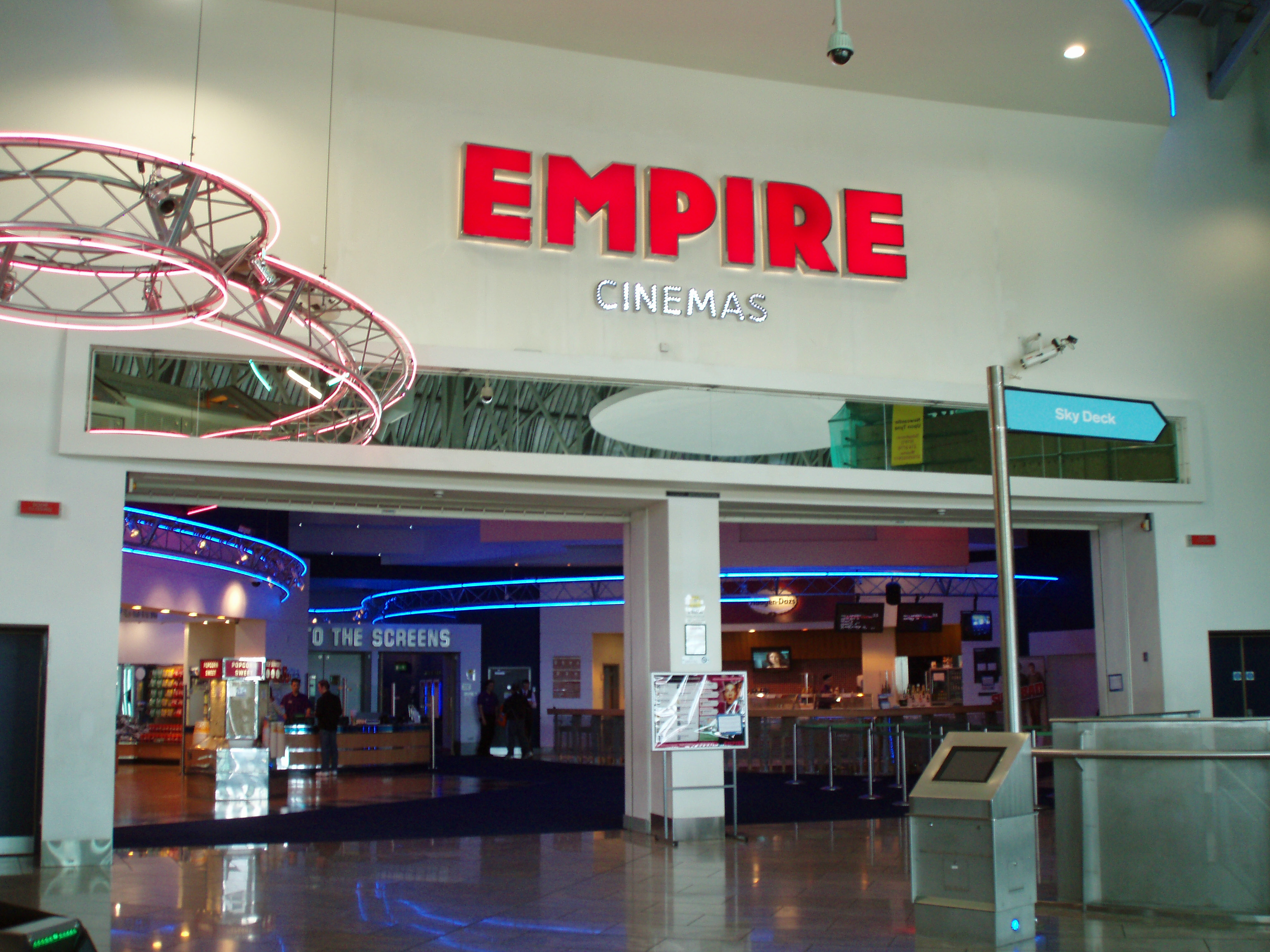 This is the Empire Cinema at The Gate entertainment complex, Newcastle upon Tyne, England.